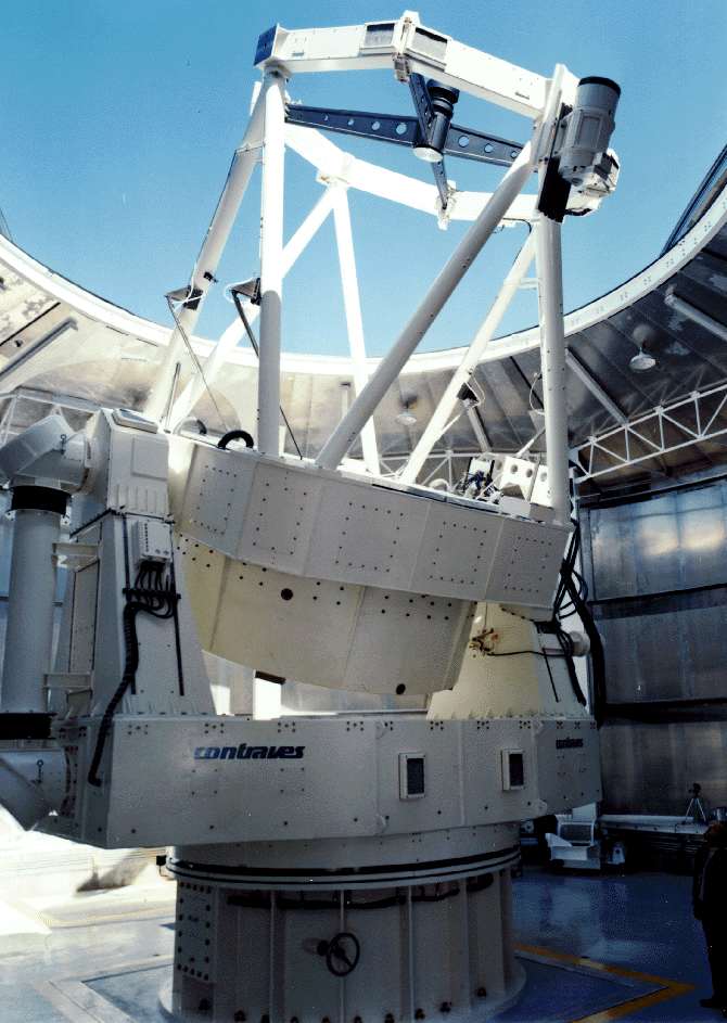 The 3.5 meter telescope facility is expected to become one of the world's most capable for obtaining ultra-high resolution images at visible wavelengths. Near diffraction limited performance (in the 0.6-1.0 micron wavelength region and to an apparent visual magnitude limit greater than tenth) will be achieved within the next few years through the use of high-order adaptive optics and a sodium wavelength laser beacon. First light with the adaptive optics installed was achieved in September of 1997. View the binary star image taken on the 3.5m telescope with adaptive optics. Much attention has also been directed at minimizing thermally-induced turbulence throughout the 3.5 meter telescope facility. The outstanding example of this effort is a fully collapsible telescope enclosure. The facility is cooled by a closed-cycle water system chilled by ice stored underground, away from the facility. The 3.5 meter telescope is a classical Cassegrainian optical design with a coudé path. Sensors and other auxiliary instrumentation can be mounted at one of two Naysmyth optical breadboards on the telescope itself or in one of several coudé laboratories.